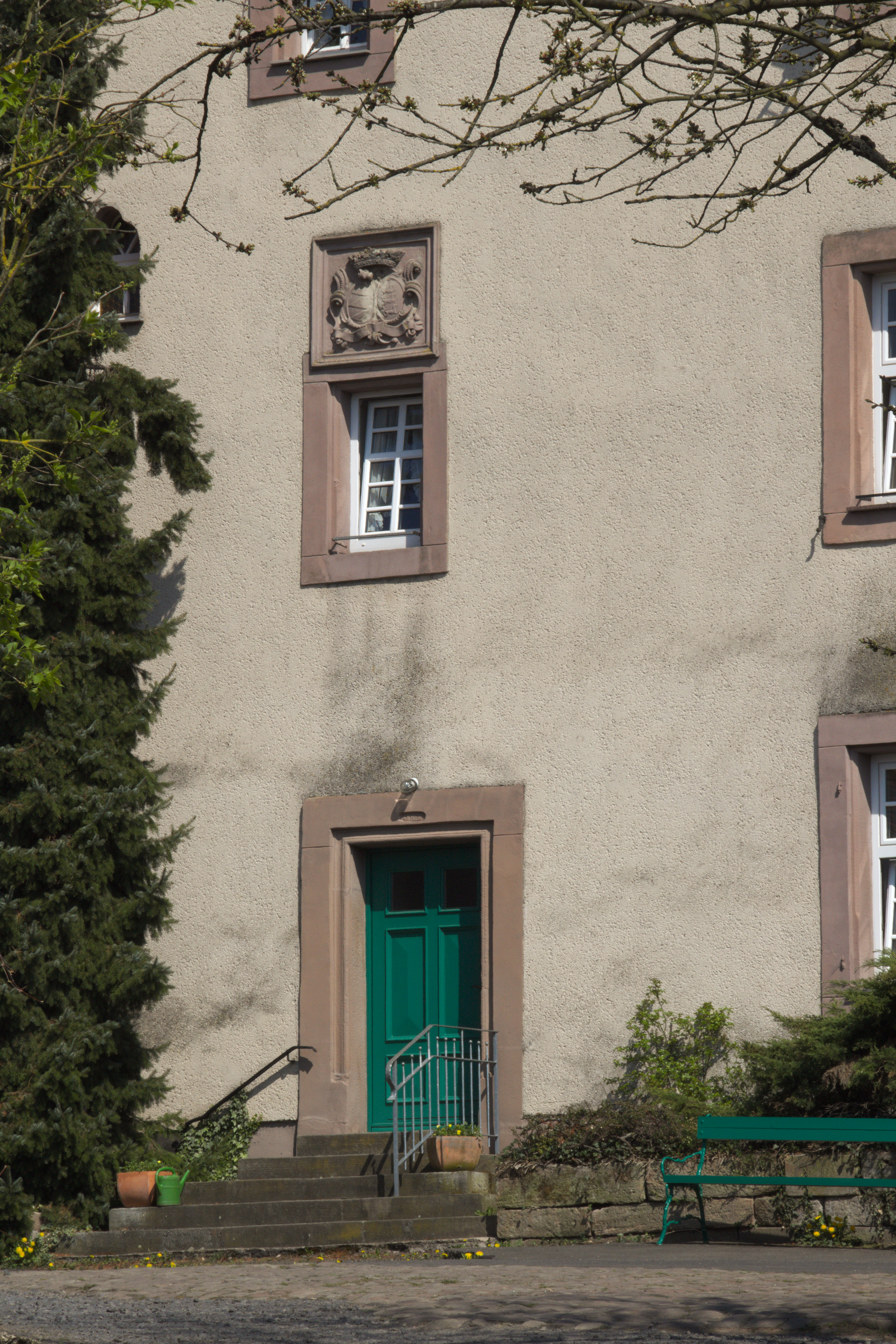 Building (detail) "Schloss Hattenbach" Schlossberg, Hattenbach, Niederaula, Hesse, Germany